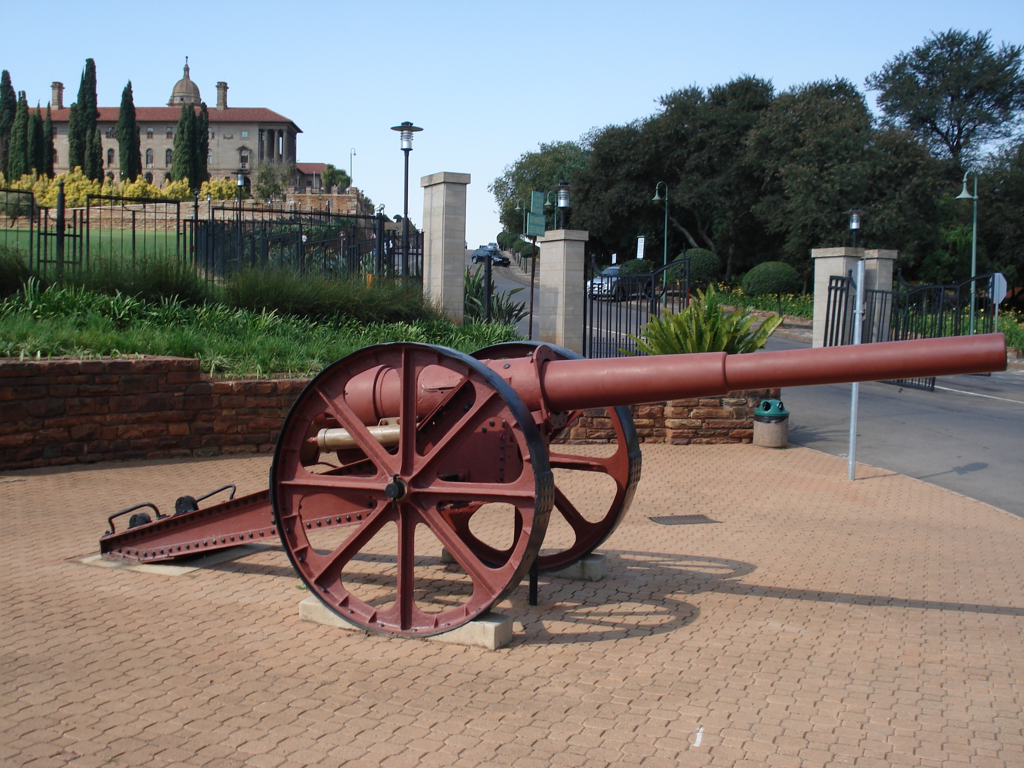 This media shows a South African Protected Site with SAHRA file reference 9/2/258/0067.